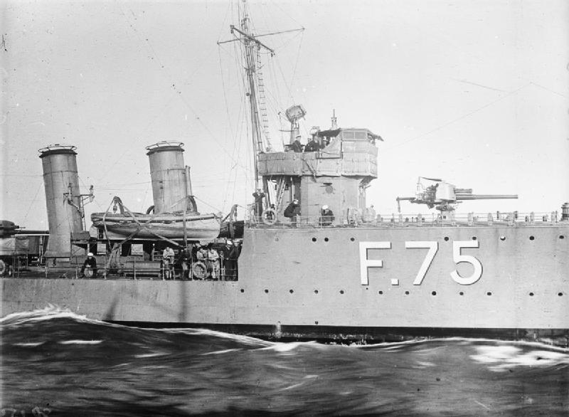 Photograph showing bridge and forward QF 4-inch Mk IV gun of British R class destroyer HMS Torrid.